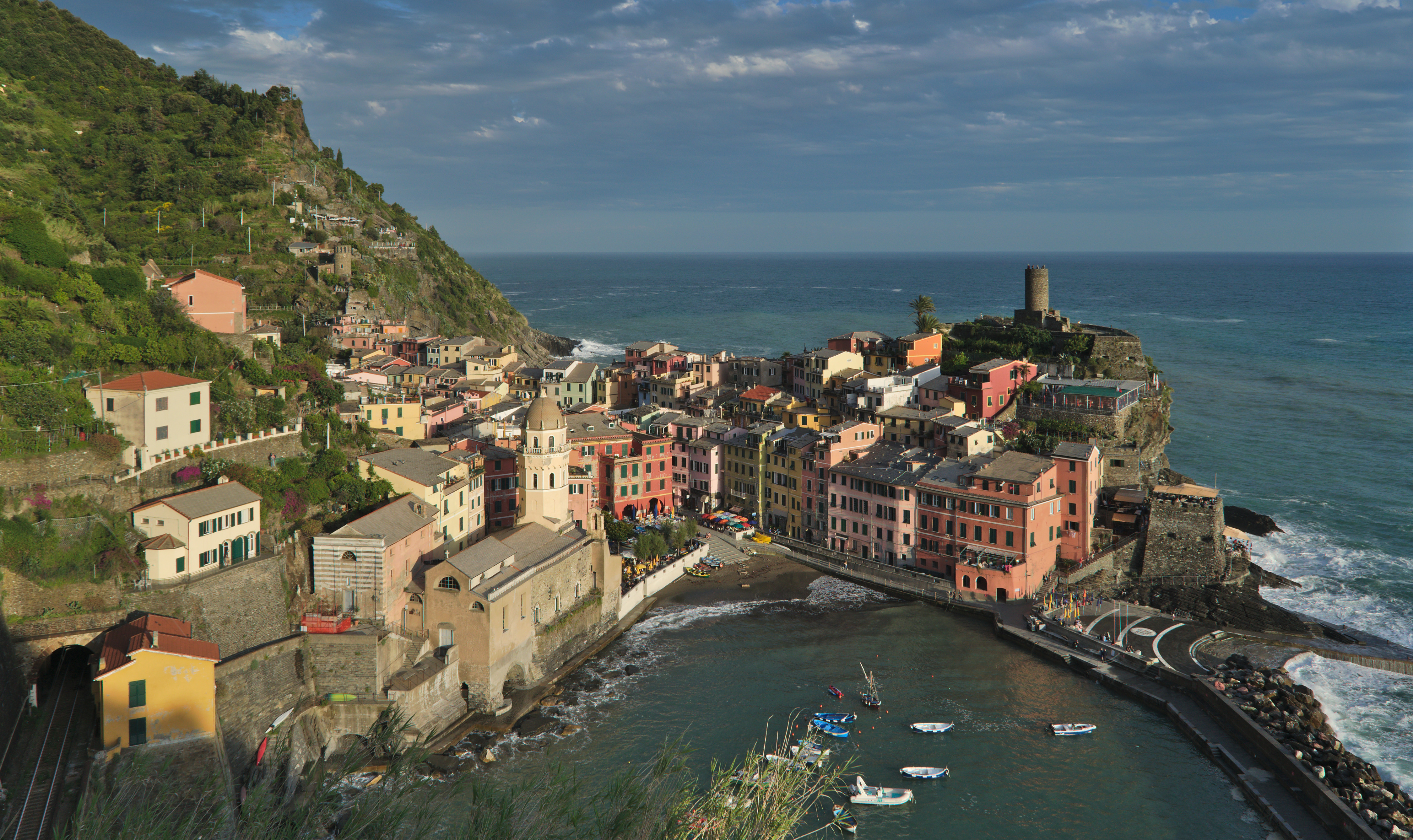 Vernazza seen from the Azure Trail.